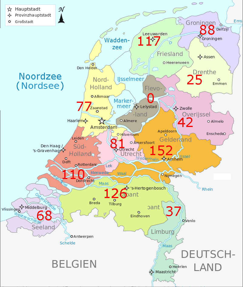 Map of the Netherlands (including the special municipalities of Saba, Saint Eustatius and Bonaire; the Caribbean Netherlands), showing provinces, large cities, rivers and lakes. German Version. Insertion of the numbers of Brick Gothic Buildings or groups of such buildings, found in each province.